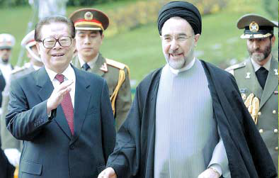 Visitation of Jiang Zemin to Iran- Mohammad Khatami- April 20, 2002 (2)